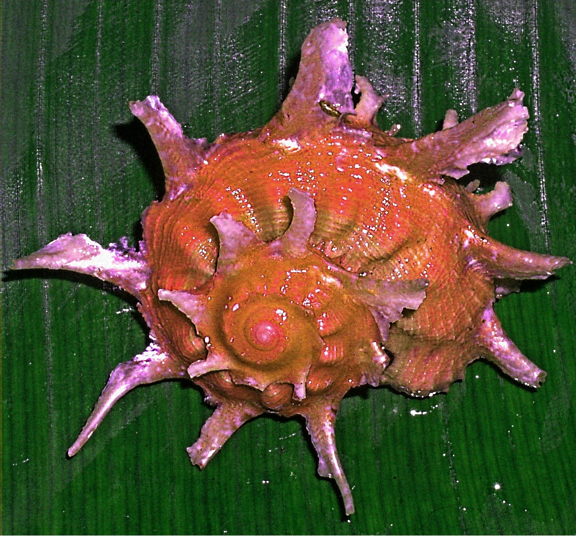 Photo of apical view of the shell of Kiener's Delphinula Angaria sphaerula.